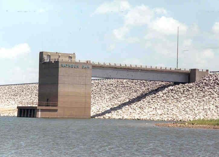 Rathbun Dam